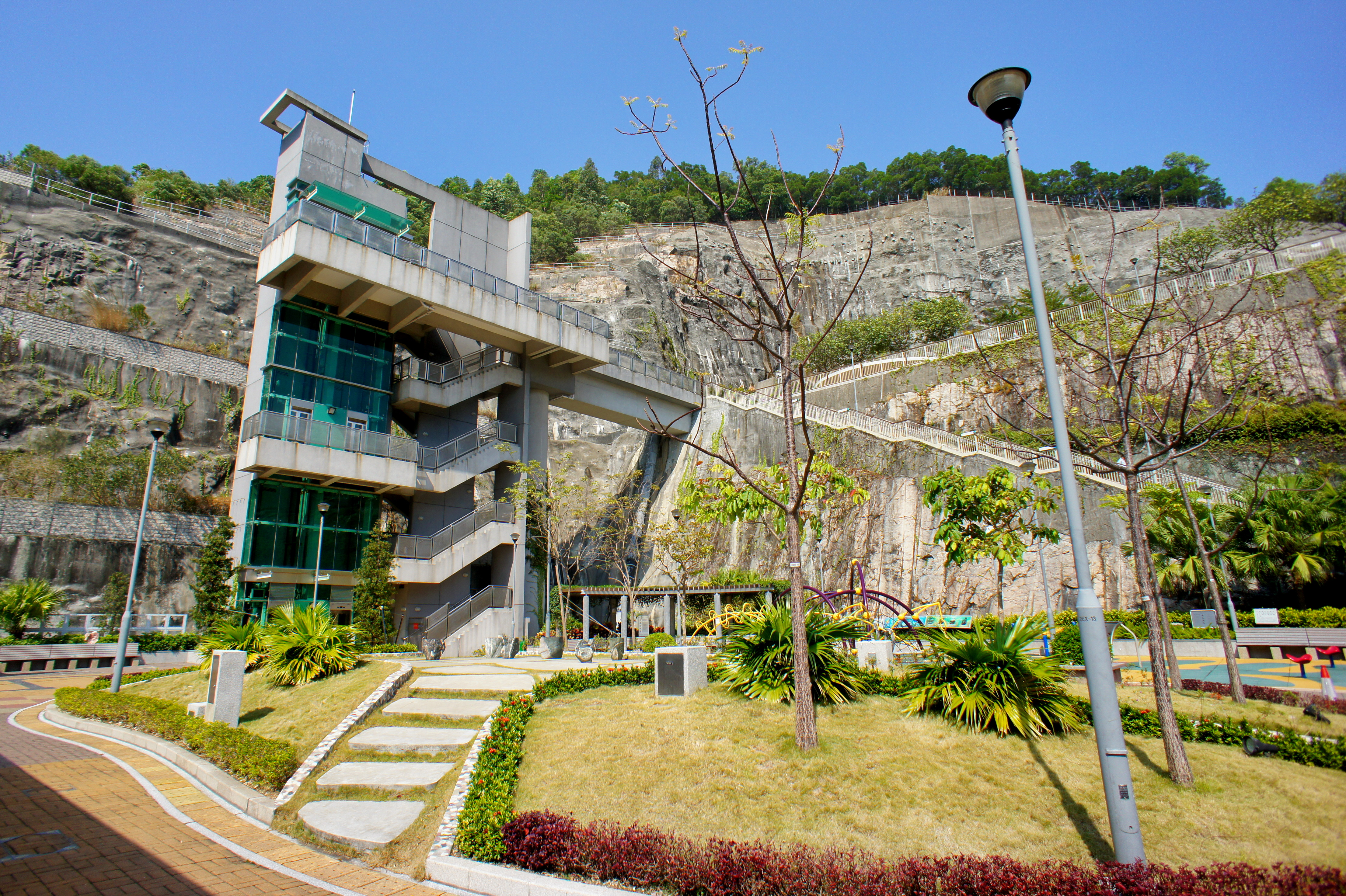 Choi Wing Road Park, Hong Kong.